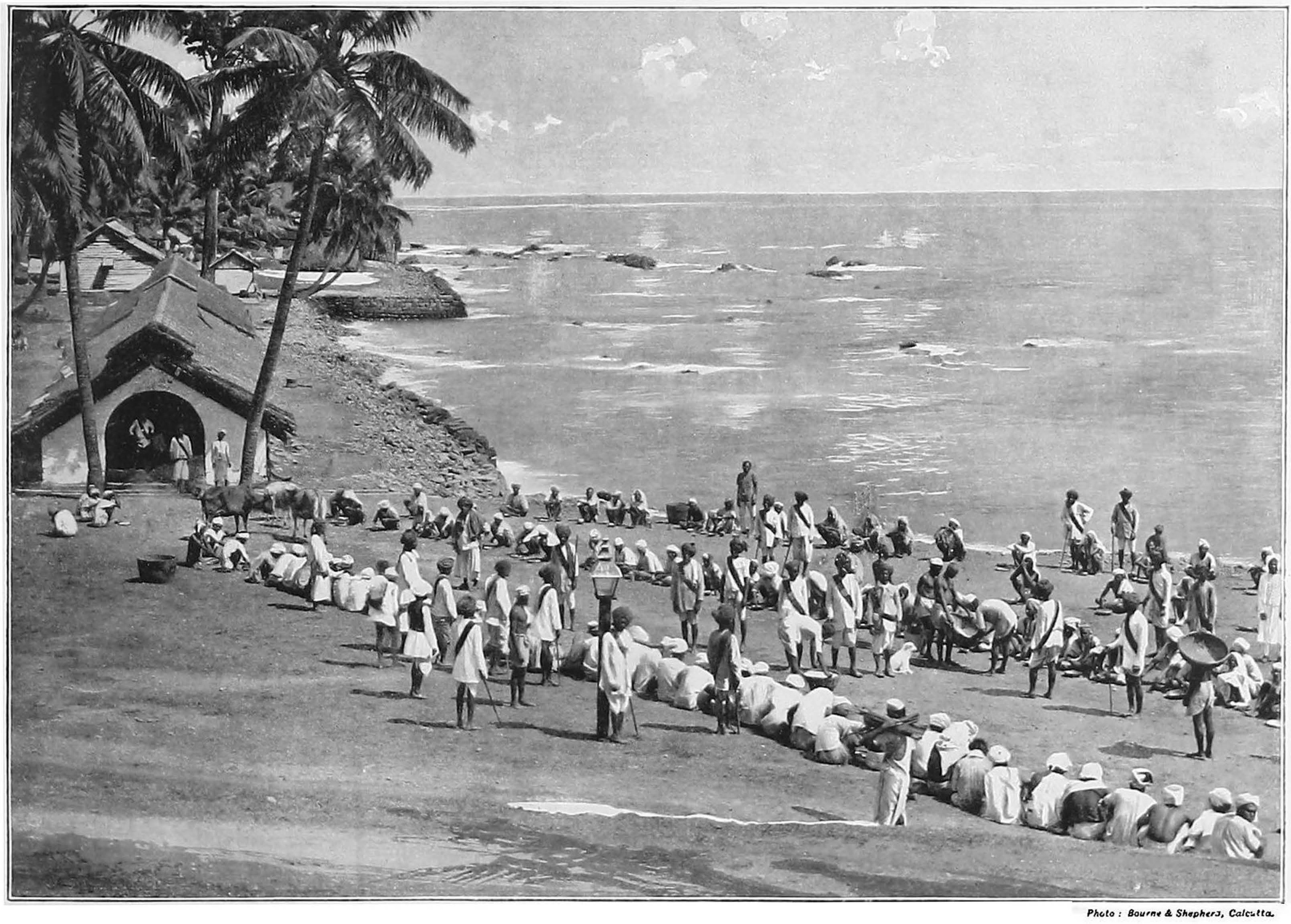 PRISONERS IN THE ANDAMAN ISLANDS. The little group of the Andaman Islands lies in the Bay of Bengal, some six hundred miles to the south of Calcutta. In 1858 a convict settlement was established at Port Blair, on the principal island, and to it were sent a large number of the Sepoy mutineers. The island has now become a general convict station for prisoners under life-sentences. It is a group of these men that we see in our illustration assembled on the shore for their mid-day meal. It was at Port Blair that Lord Mayo, Viceroy of India, was treacherously murdered by one of the convicts in the year 1872.